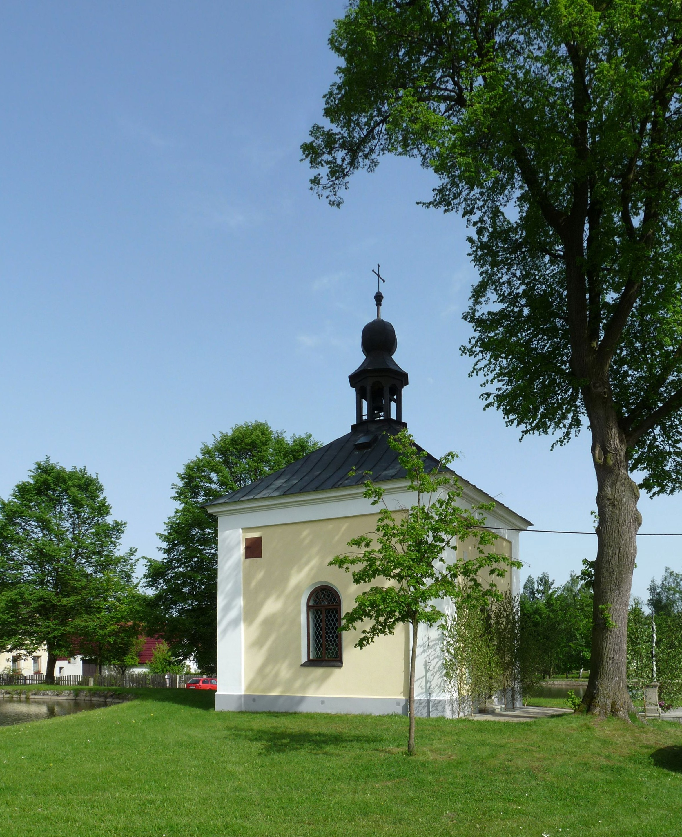 Chapel in the village of Březina, Jindřichův Hradec District, South Bohemian Region, Czech Republic.